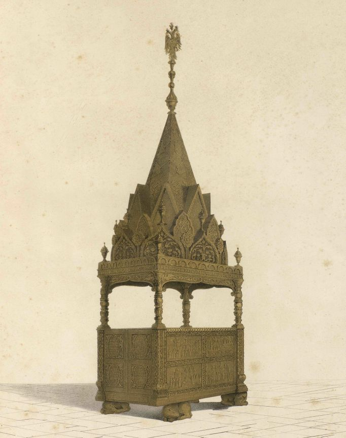 Monomakhov tron